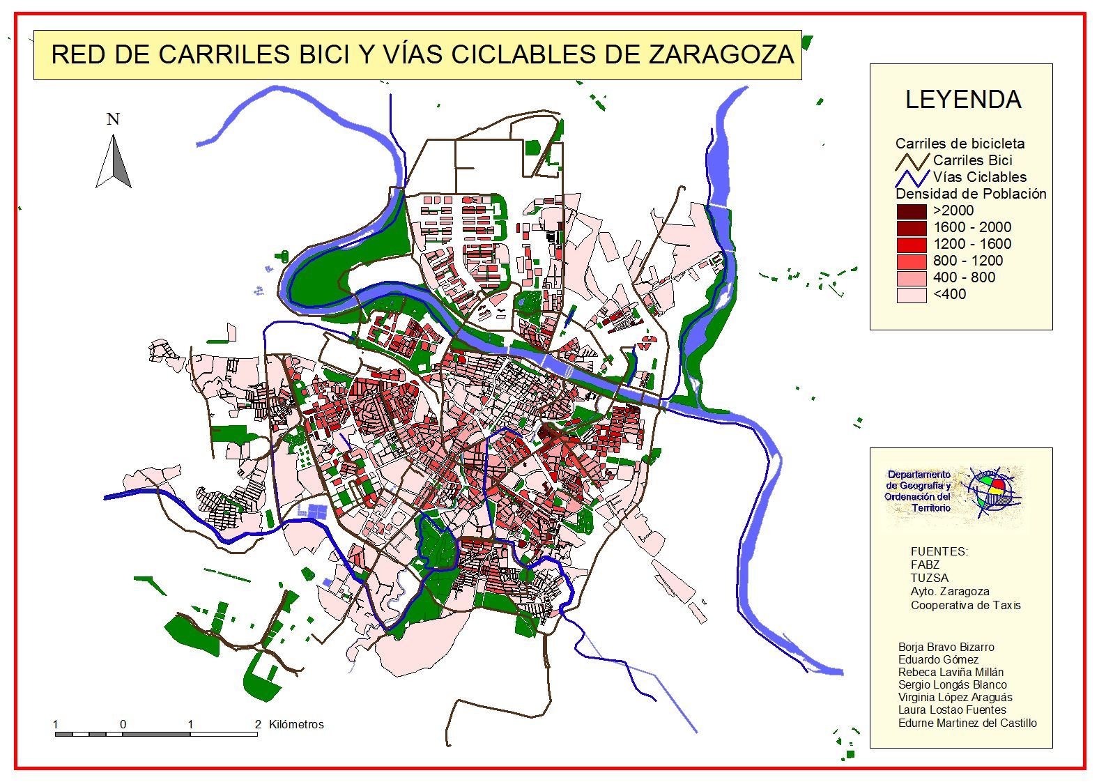 Bikes roads of Zaragoza.